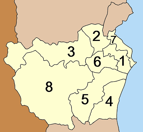 Map of Phetchaburi province, Thailand, with the districts (Amphoe) numbered. Mueang Phetchaburi Khao Yoi Nong Ya Plong Cha-am Tha Yang Ban Lat Ban Laem Kaeng Krachan